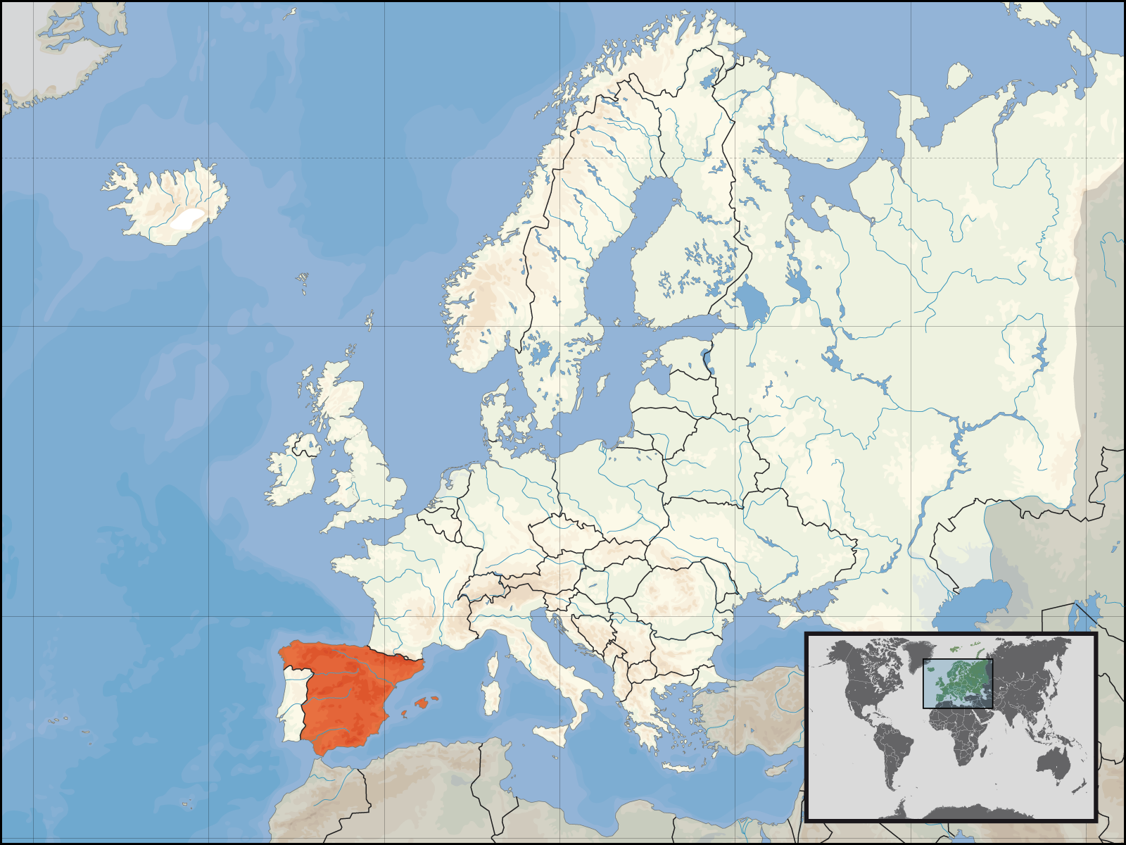 Location of Spain in Europe on 1. Januar 2007